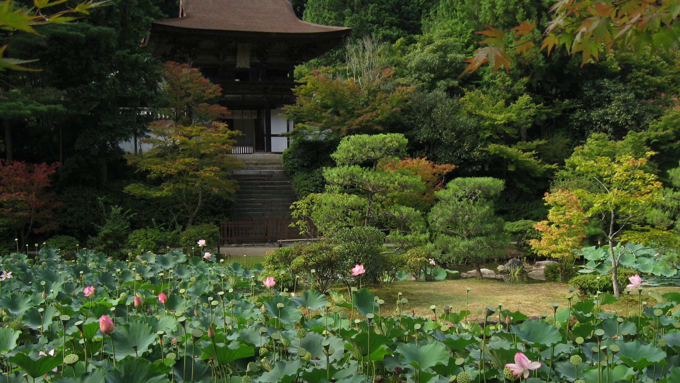 Enjō-ji Garden, Date taken(YYYY-MM-DD): 2008-09-13 Place taken: Enjō-ji, Ninnikusen, Nara, Nara, Japan.